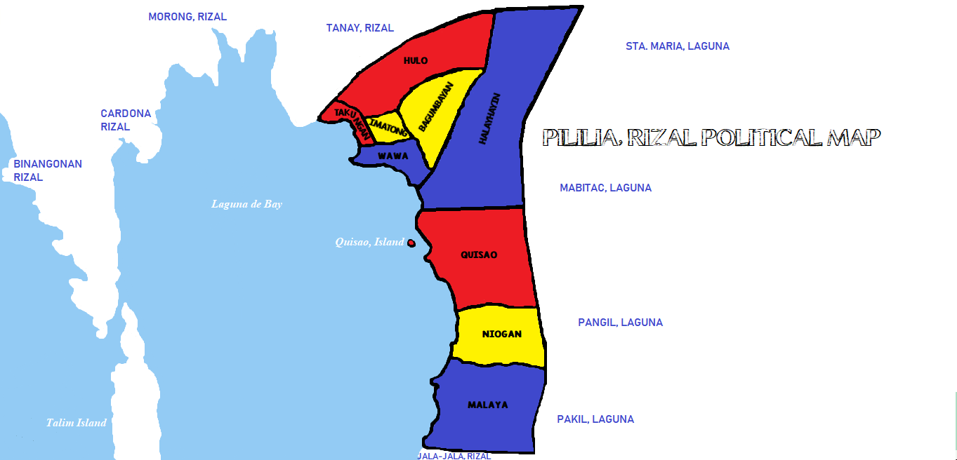 It was clearly shows the Barangays in the Pililia, Rizal and the adjacent cities/municipalities in the area